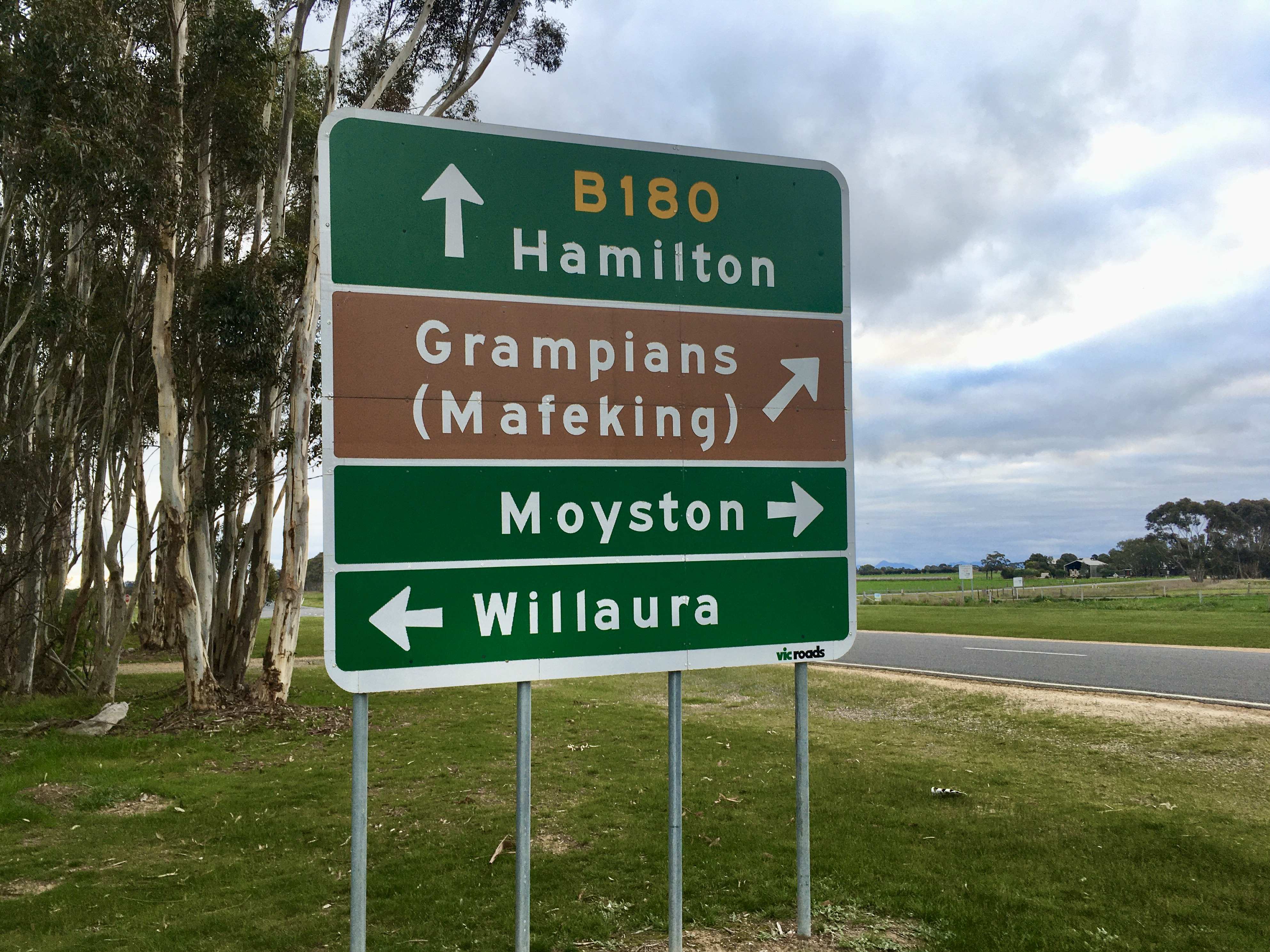 Pyrenees (B180) guide sign at Willaura heading south.